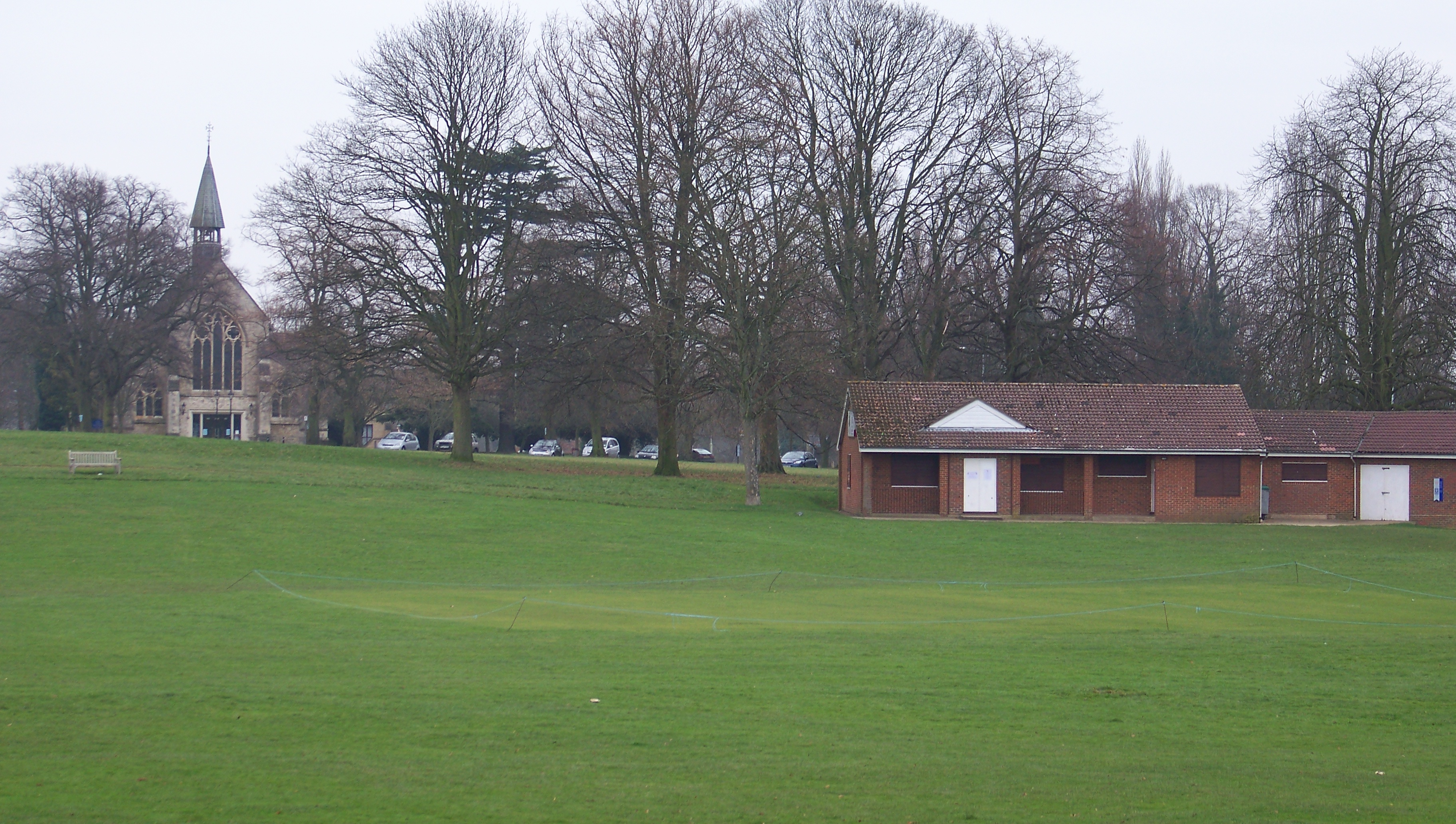 Boxmoor cricket club, England, with St. John's Church in the background.